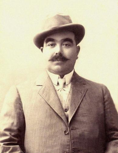 Minister of Finance of Azerbaijan Democratic Republic Aliagha Hasanov.